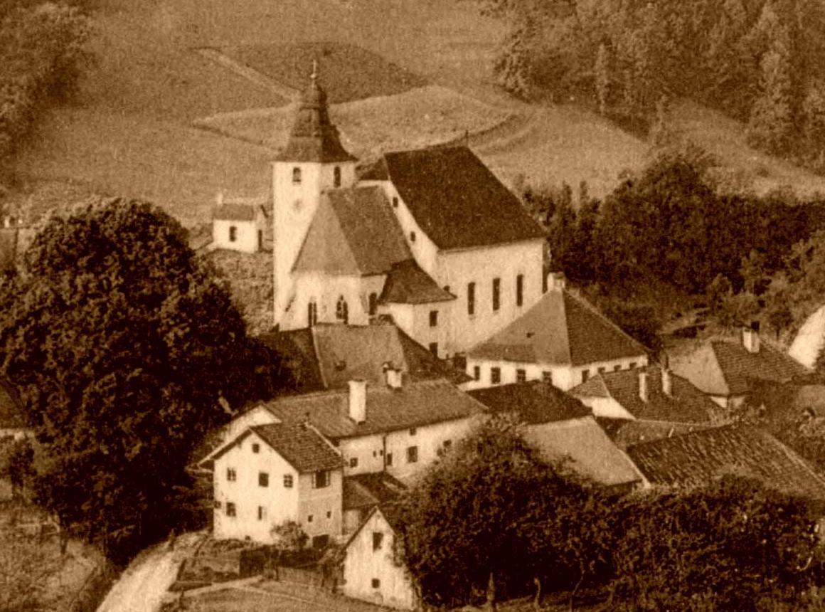 1928 Pfarrkirche Frankenfels